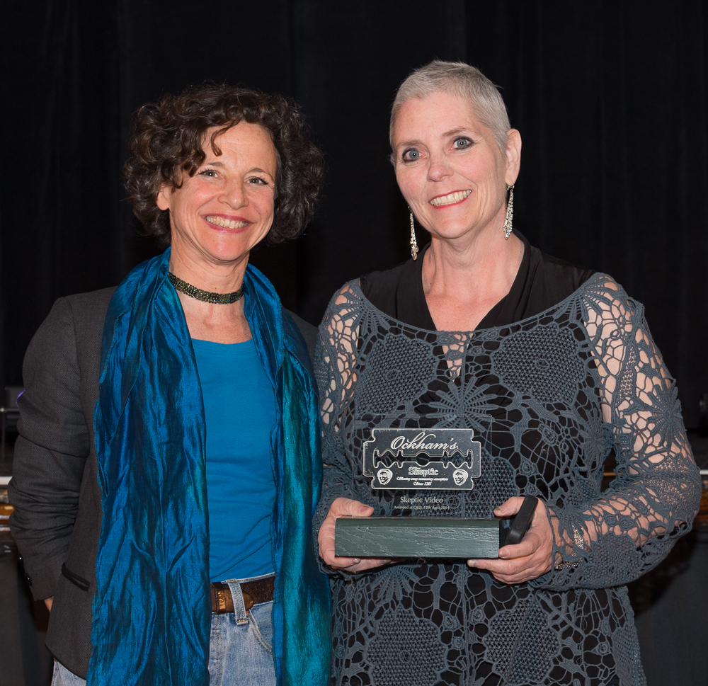 Susan Gerbic accepts the Ockham Award for Best Podcast on behalf of the crew of Skepticality, at QEDcon 2014, presented by Elizabeth Pisani (L). Shortly after this photo was taken, it was discovered that there had been a mixup: Gerbic was handed the Best Video award instead of the Best Podcast award; they were subsequently switched.